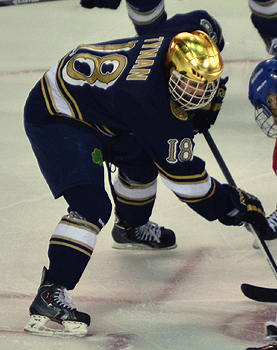 UMass Lowell vs. Notre Dame (Sat)